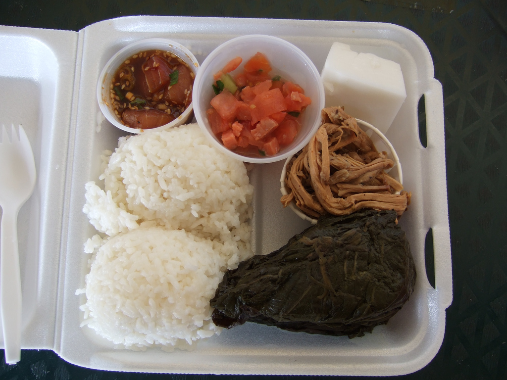 A plate lunch from the Ward Farmer's Market: ahi poke (raw ahi tuna marinated in shoyu soy sauce, similar to ceviche), lomi lomi salmon, kalua pork and pork lau lau (pork slow cooked in taro leaves) - served with two scoops of rice and one block of haupia (a coconut pudding-style desert). The whole thing cost about $7.50US! I forget the name of the lunch place, but it was established in 1890. 1890.